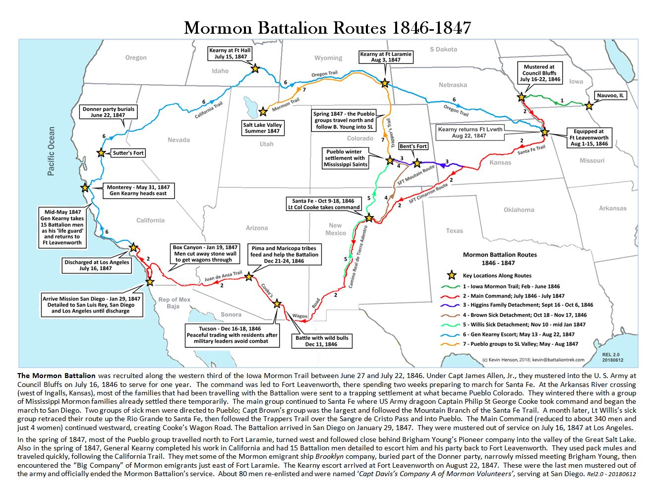 Enlisted to provide infantry support to General Kearny's Army of the West, the Mormon Battalion was assigned to create the first continuous wagon road from Santa Fe to southern California. A total of four groups were detached at various points, complicating a clear appreciation for the movements in the Far West. This is a new and improved version of older maps which did not include all the detachment routes. Color coding of the detachments with more location/date call outs about key events will help viewers.